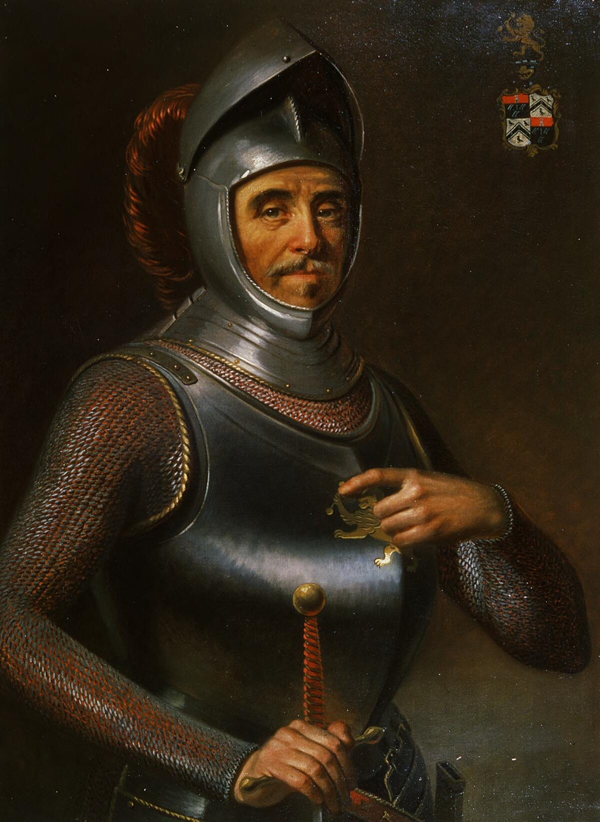 A painting from the Framed Works of Art collection at the National Library of wales.